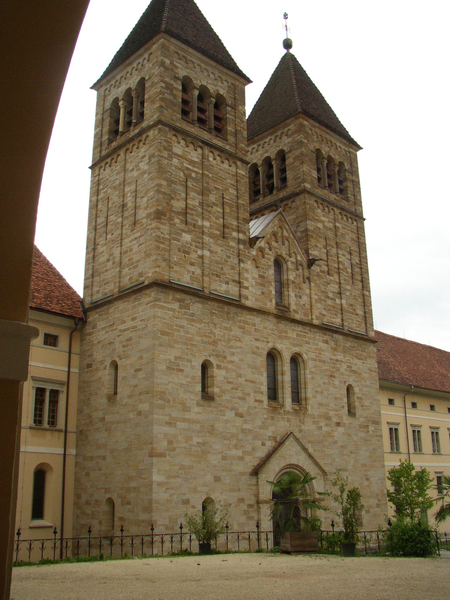 Spires of Seckau abbey church